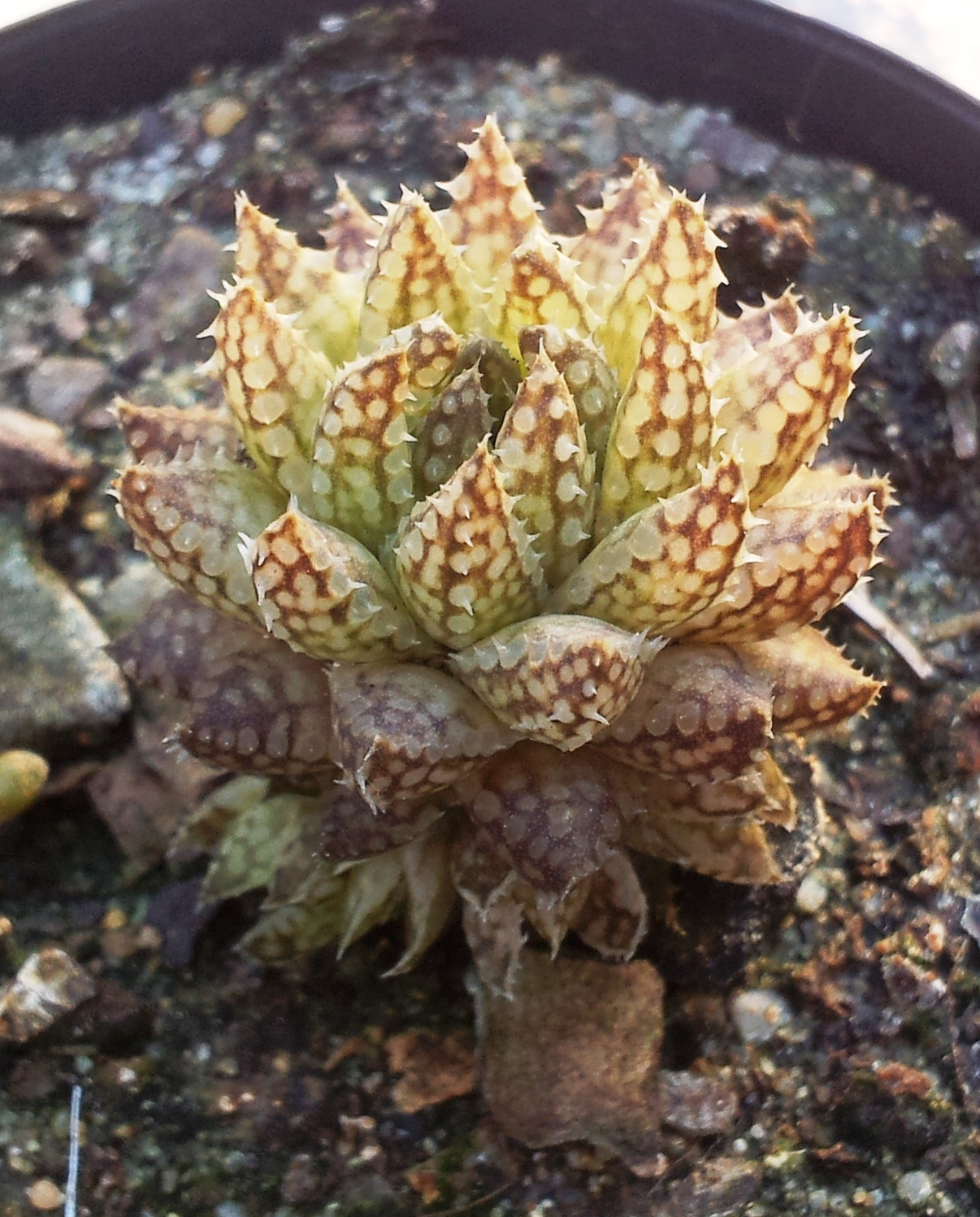 Haworthia reticulata in cultivation